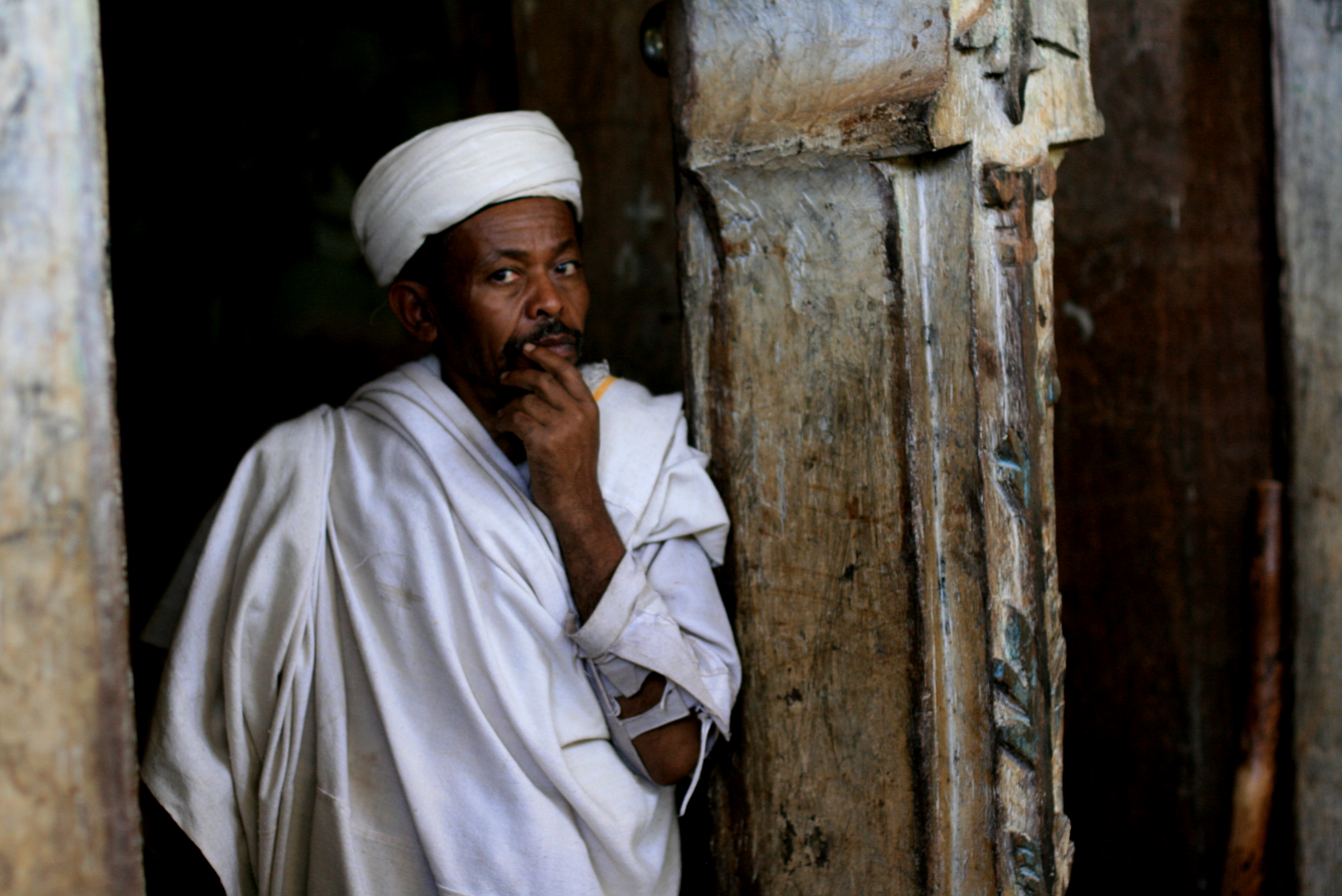 A priest in Bahir Dar near Lake Tana in the Amhara Region of Ethiopia.